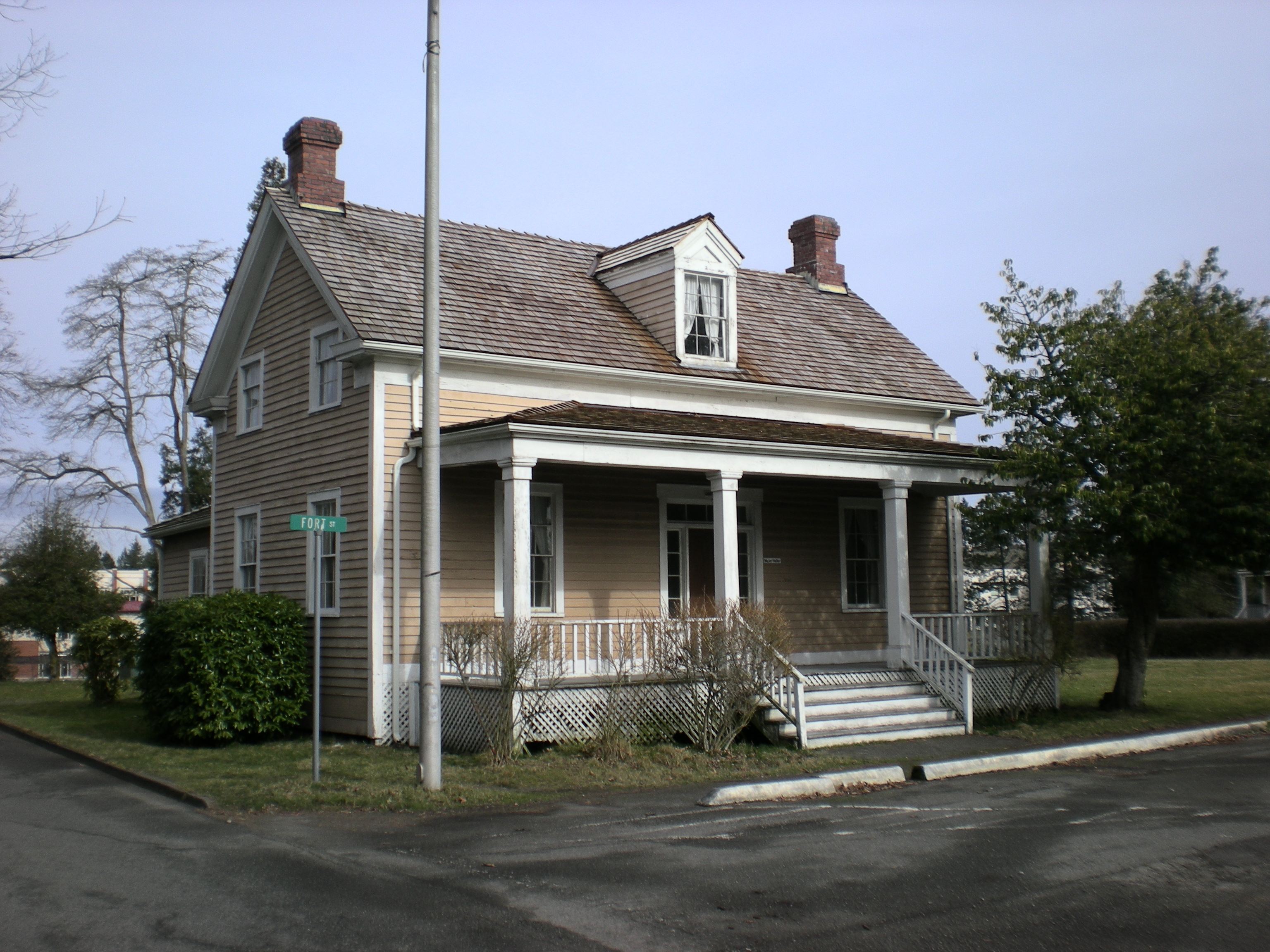 Fort Steilacoom Officer's Quarters in Steilacoom, Washington.